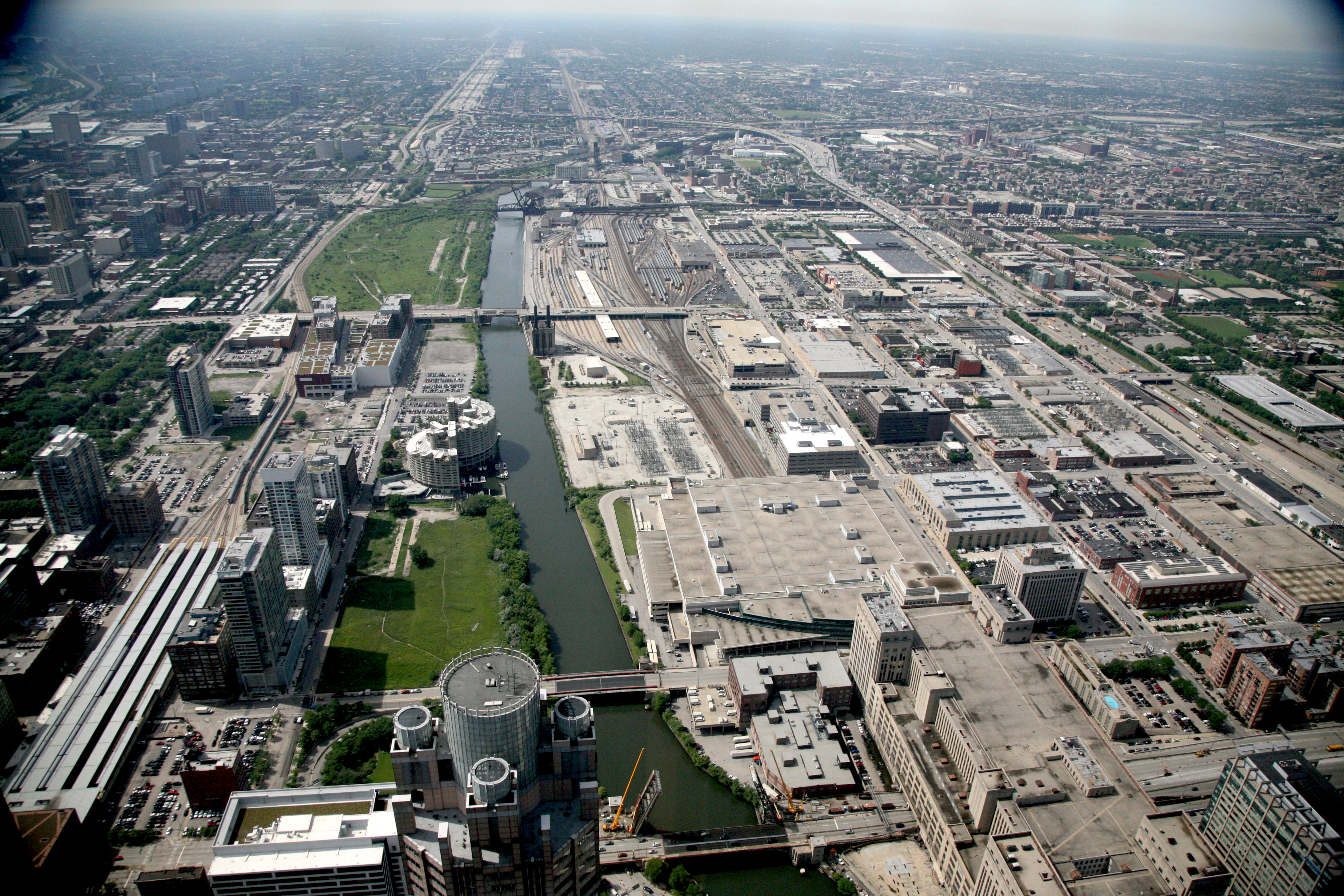 Chicago